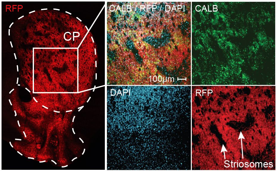 immunochistochemical staining of striatum (mouse brain)